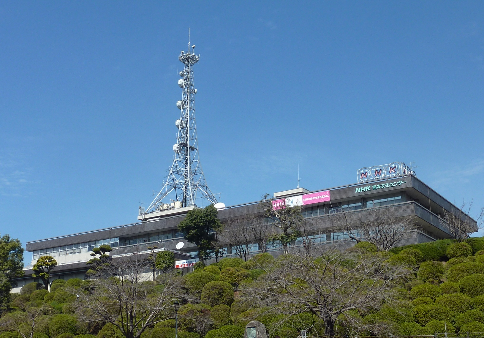 NHK Kumamoto (JOGK) in Kumamoto City, Japan